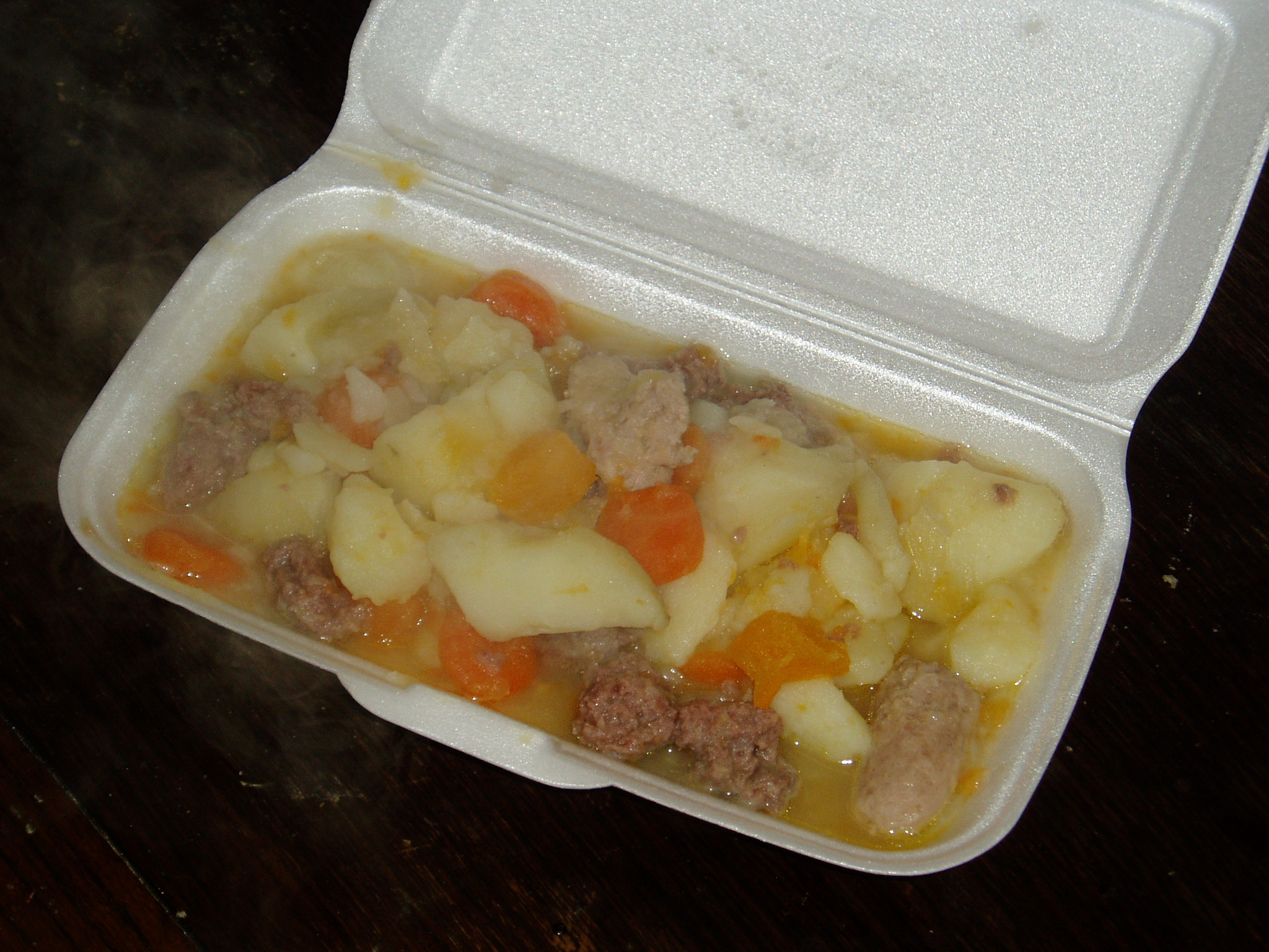 Stovies.recipe of potato, carrot, onion and sausage